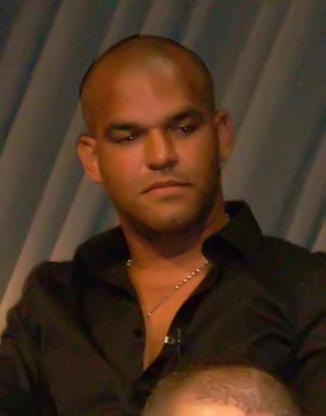 Amaury Nolasco at Paley Center for Media, Beverly Hills, California